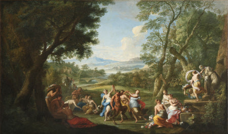 (Description from source:) Measures 489 x 635 mm (19 1/4 x 25 in).Oil painting on canvas.Landscape with the Floralia by Andrea Locatelli (Rome, 1695 ? - Rome, 1741?).A landscape woodland setting, with figures in a glade in the centre dancing, to the right a second group of figures shelter under the trees and stand upon rocks watching. All are dressed in classical clothes. This painting celebrates the classical never-neverland dear to the 18th century.The Roman goddess of flowers and gardens was not the innocent nymph, known to the Greeks as Chloris, abducted and then married by the wind-god Zephyr, but originally a common courtesan. The celebration in Rome of the games called the Floralia began on 28th April, and involved the exhibition of naked women in the amphitheatre, in what Lempriere calls 'scenes of the most unbounded licentiousness'. The satyrs introduced into the present painting imply similar abandon in an earlier and mythical past. Flora - apparently represented by the armless statue of a woman being garlanded with flowers on the right - was the Roman goddess of flowers, and Priapus - seen in the form of a herm in the far left distance - was the Greek god of fertility, and so of gardens. Locatelli was rare amongst the practitioners of landscape painting in Rome in being not only Italian, but Roman-born. The chief influence on him was Jan Frans van Bloemen, known as Orizzonte (1662-1749) but Locatelli was less bland and more dynamic. Unlike Orizzonte, he also almost always painted his own figures, so that there is more of an interplay between these and the landscape. The works of both painters were much sought after by those on the Grand Tour. Pendant to Bacchanal with Drunken Sileus on an Ass, NT 771212.